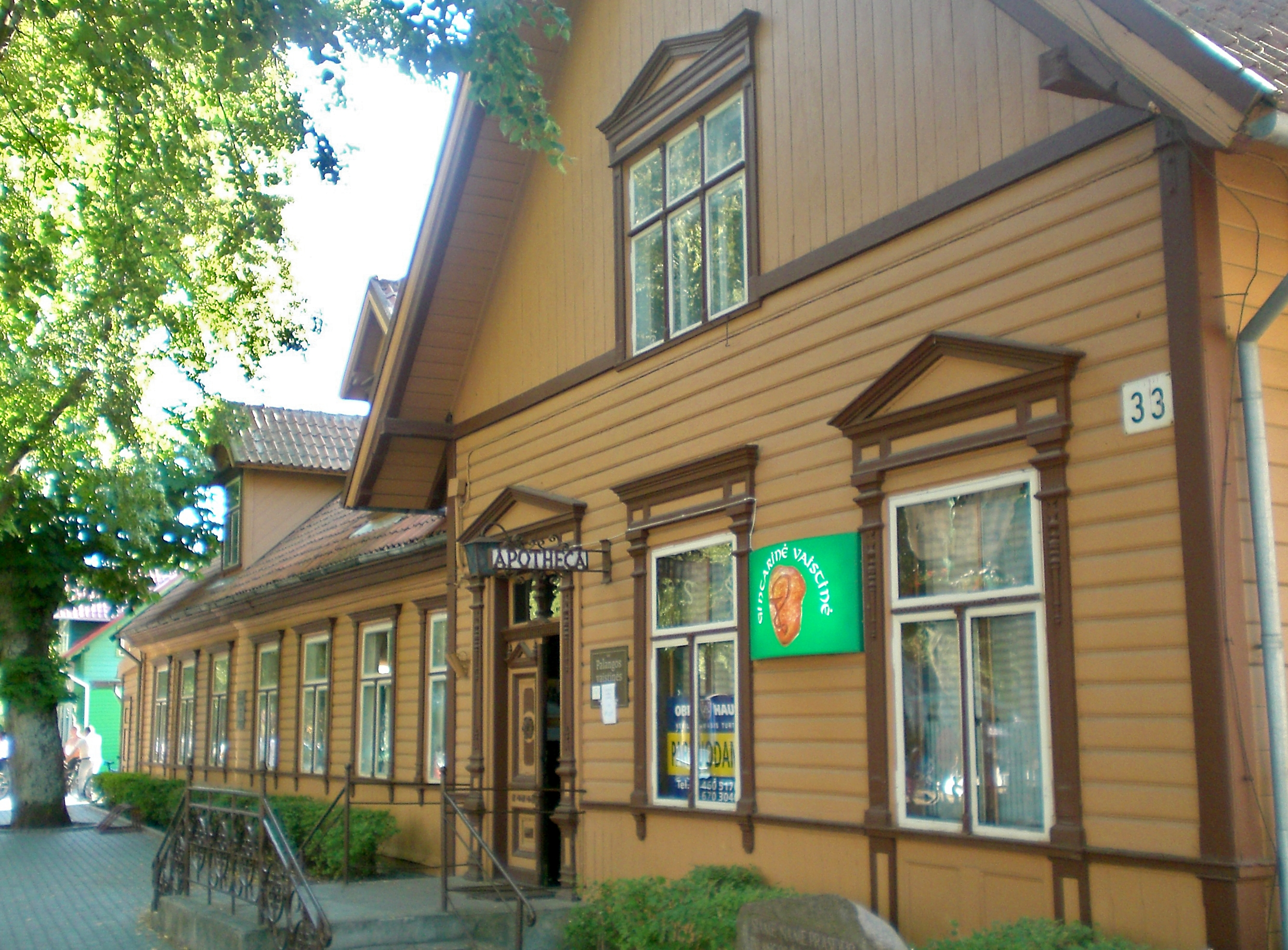 The old pharmacy in the Baltic Sea resort Palanga (Lithuania)